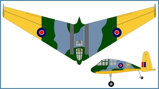 GAL56 Medium V